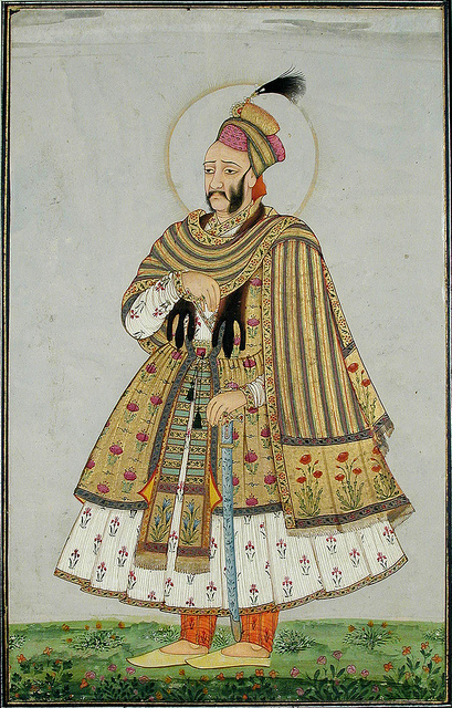 Abdullah Qutb Shah nimbate, in white jama with a gold coat and shawl.